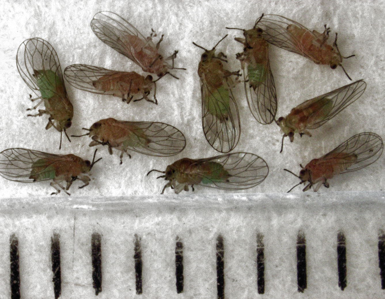 Calophya schini, to show scale